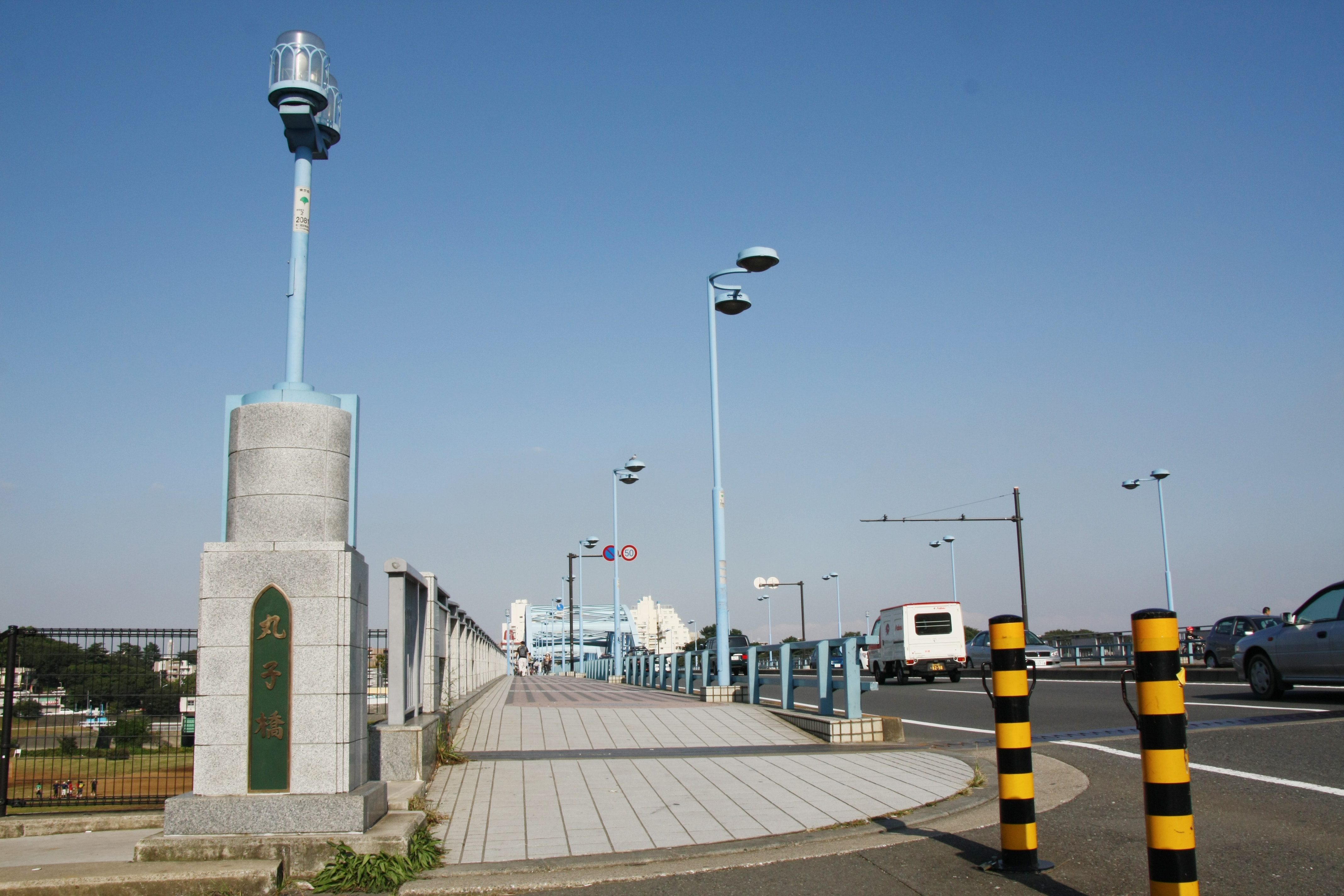 Maruko bridge from Kawasaki city.